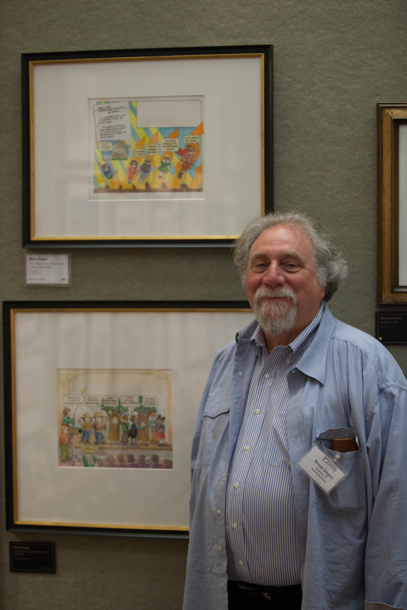 Bruce Degen posing in front of two of his original pieces of art that are on display in the Mazza Museum.